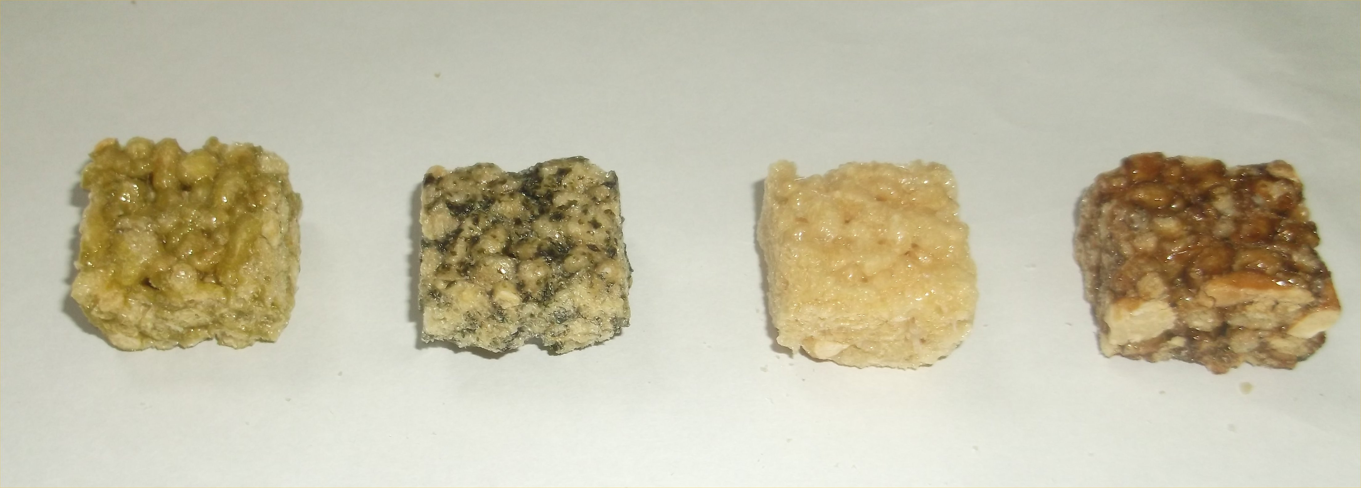 A photo of "Kaminari Okoshi"(A kind of wagashi,a specialty food in Tokyo.)